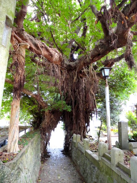 The Great Tree of Akou is a several hundred year old sacred tree, found in the middle of Naraou. Its split trunk acts as a Tori gate for the neighboring shrine. It is said that those who pass under the sacred tree will have good luck and health. The tree is of the Ficus genus and this particular strain may be native to Taiwan.